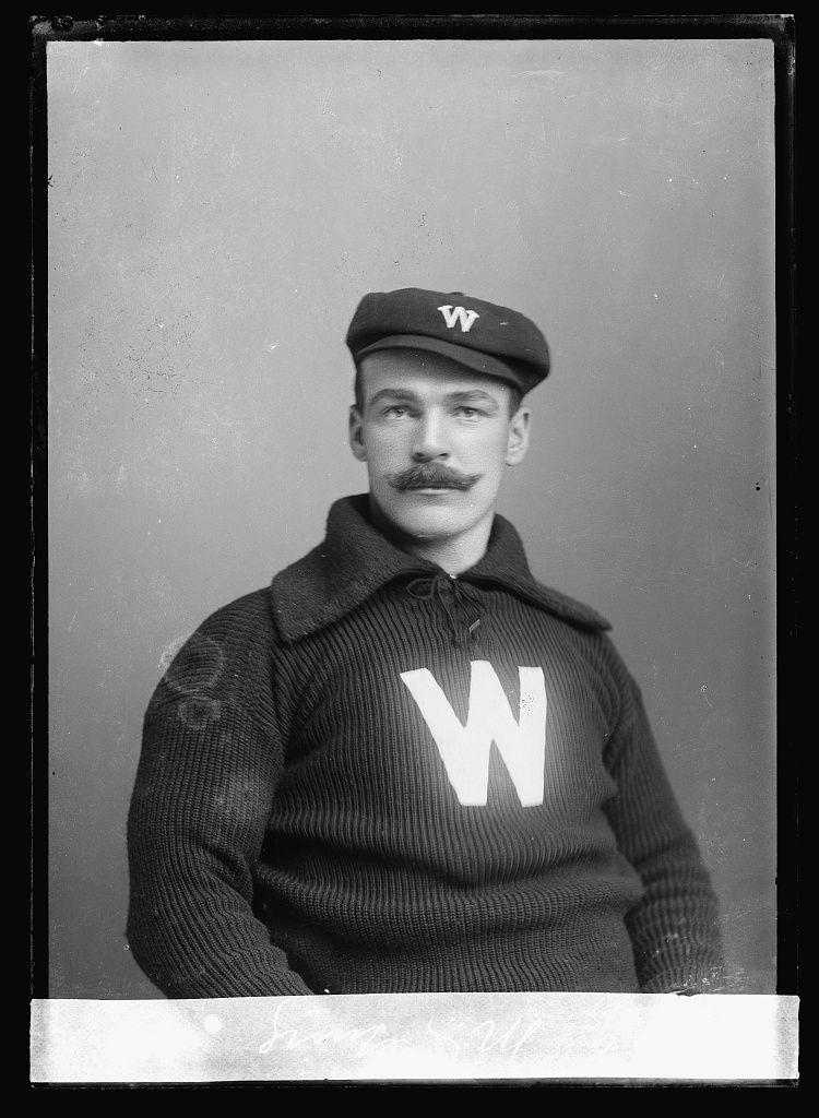 Deacon McGuire - Washington Senator - Photographed by C. M. Bell Studio